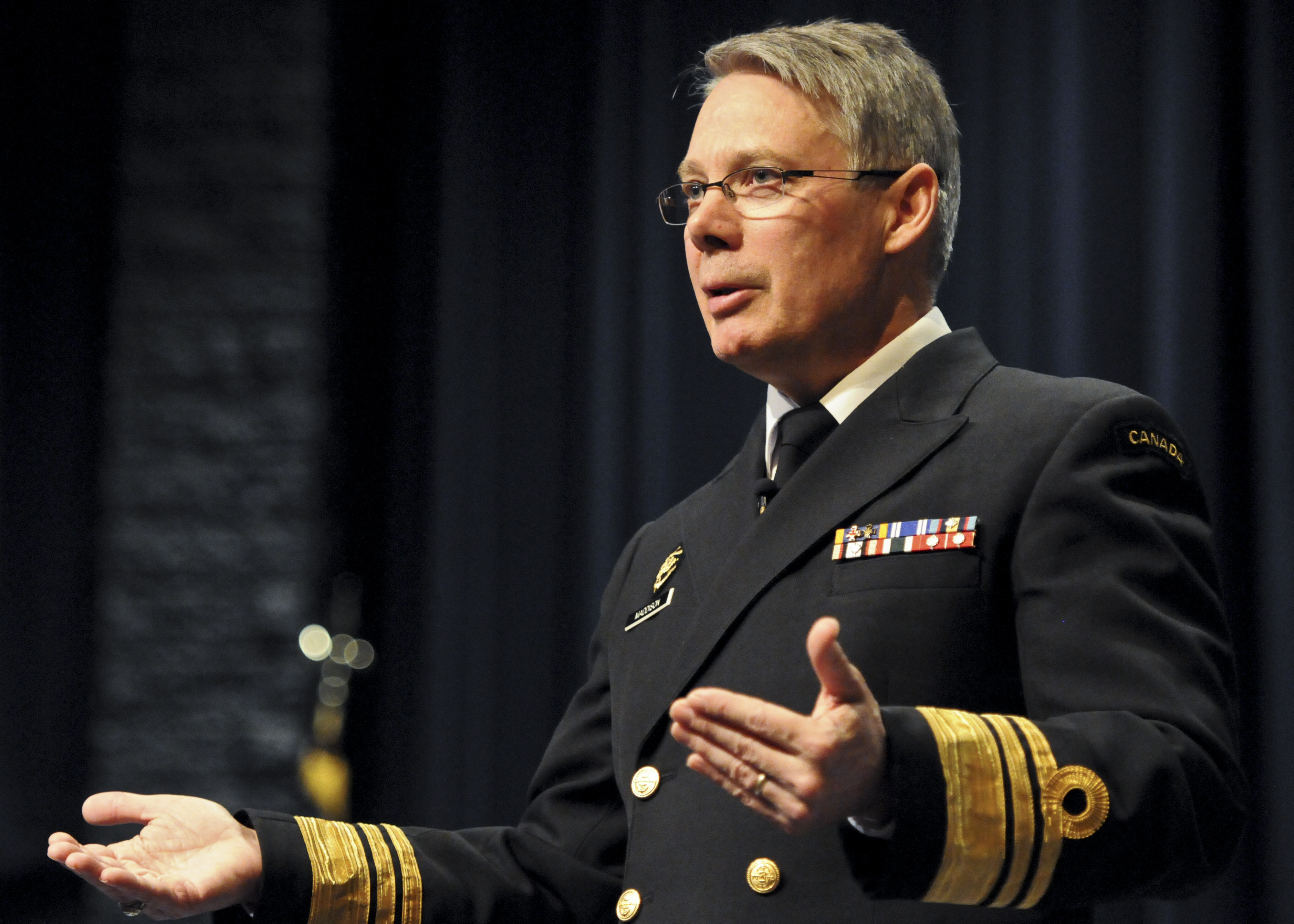 Vice Adm. Paul Maddison, commander of the Royal Canadian Navy, addresses the student body in Spruance Auditorium at the U.S. Naval War College.